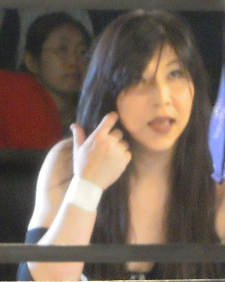 Japanese professional wrestler,KAORU. July 11 2010,OZ ACADEMY Shinjuku FACE.